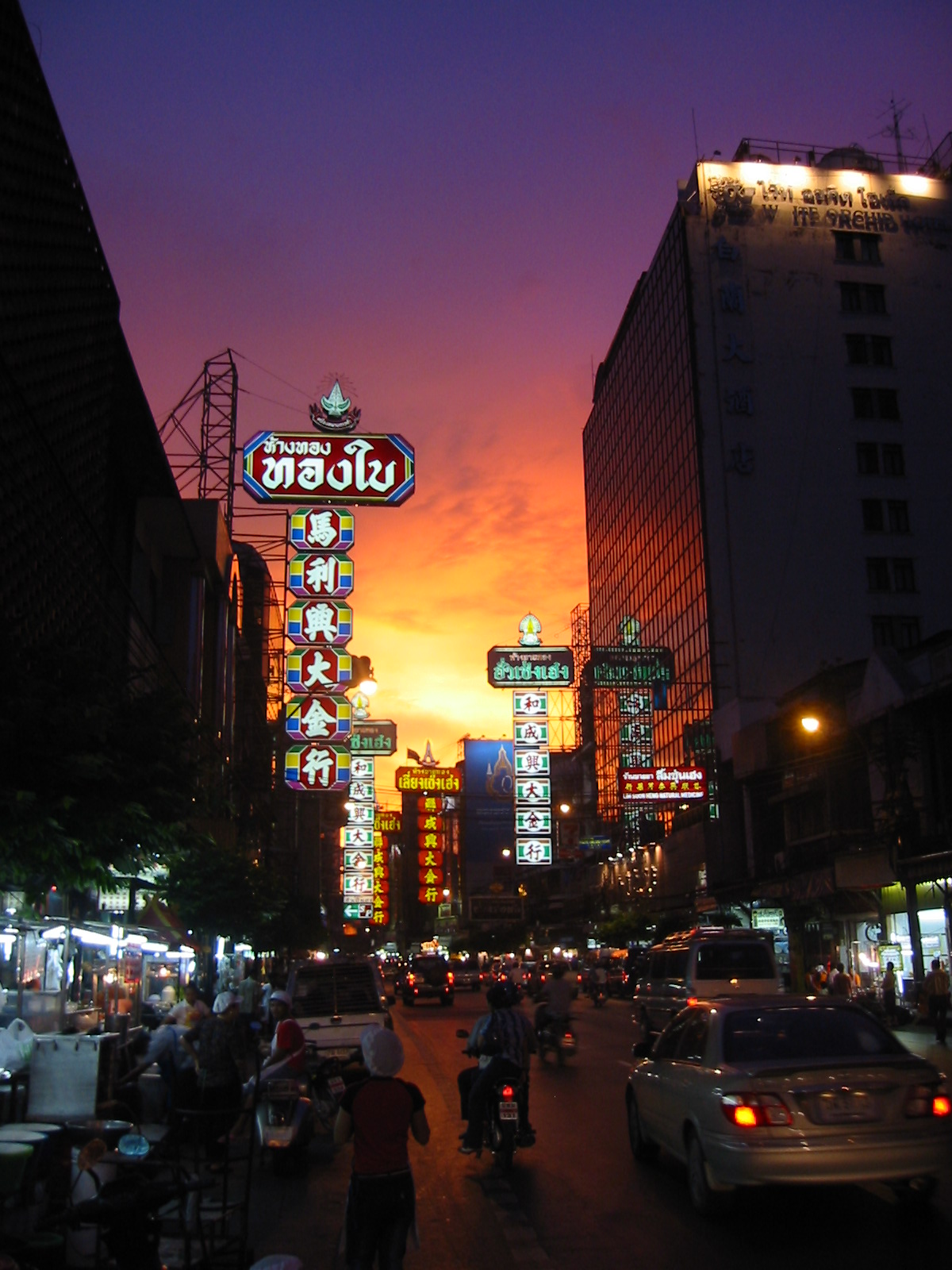 Chinatown, Bangkok, Thailand.